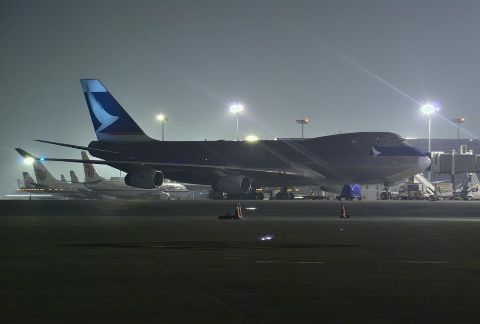 CKG is very busy at night.